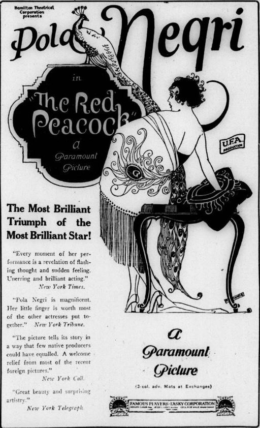 American advertisement for the German film Arme Violetta (1920) under its English title The Red Peacock with Pola Negri, ad consists of drawing with no stills from the film, on page 43 of the April 7, 1922 Variety.